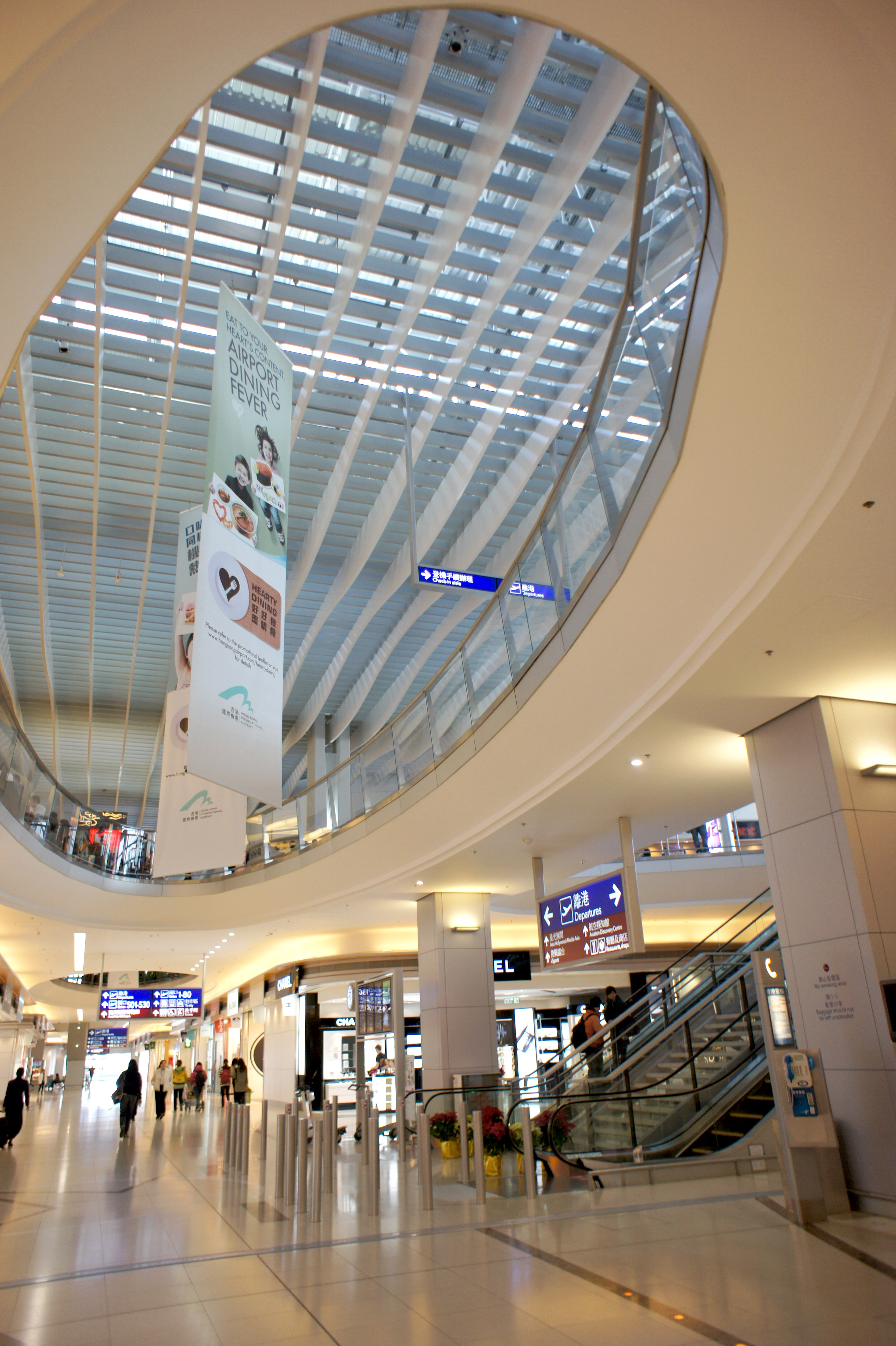 SkyPlaza at the Hong Kong International Airport Terminal 2